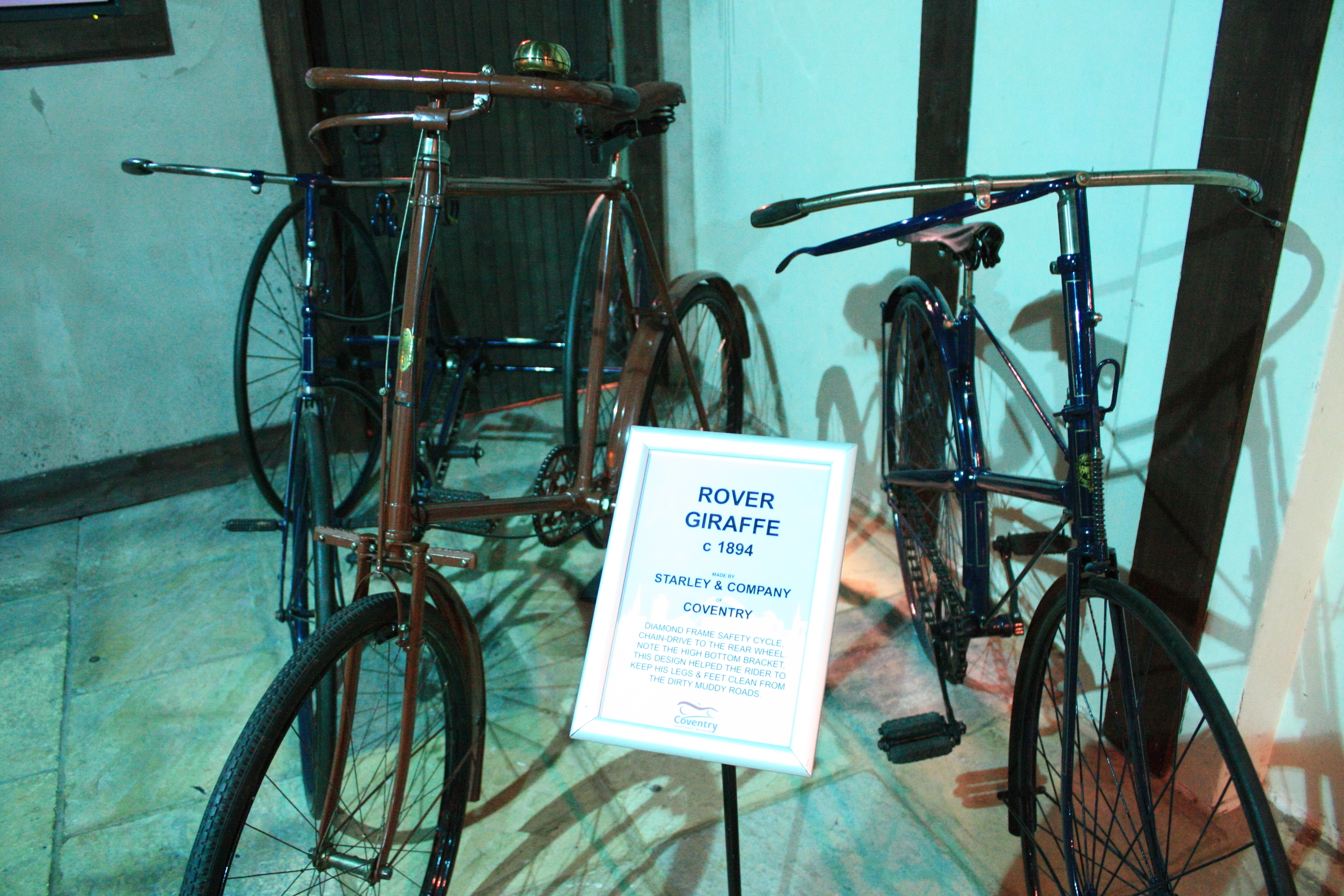 "Diamond frame safety cycle, chain-drive to the rear wheel. Note the high bottom bracket, this design helped the rider to keep his legs and feet clean from the dirty muddy roads." Coventry Transport Museum, UK. 2009